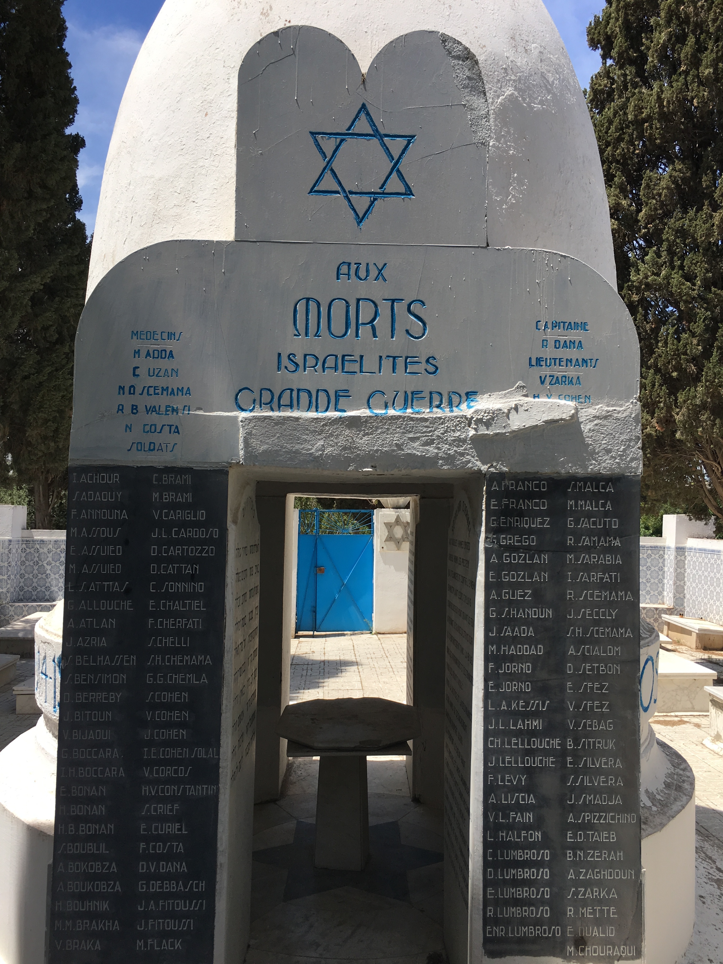 Borgel cemetery